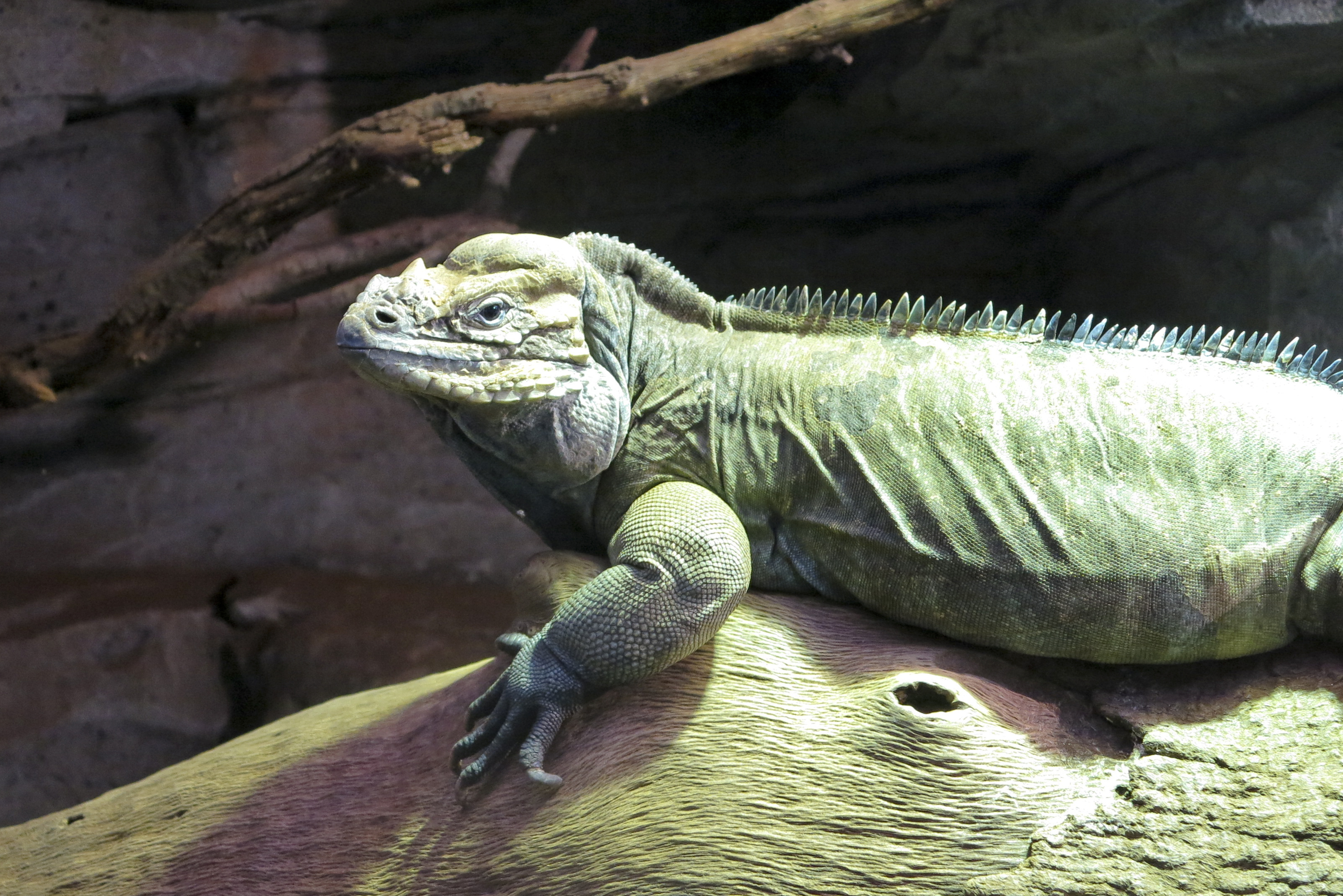 Cyclura cornuta (Rhinoceros Iguana) in the Zoo de Madrid, Spain.